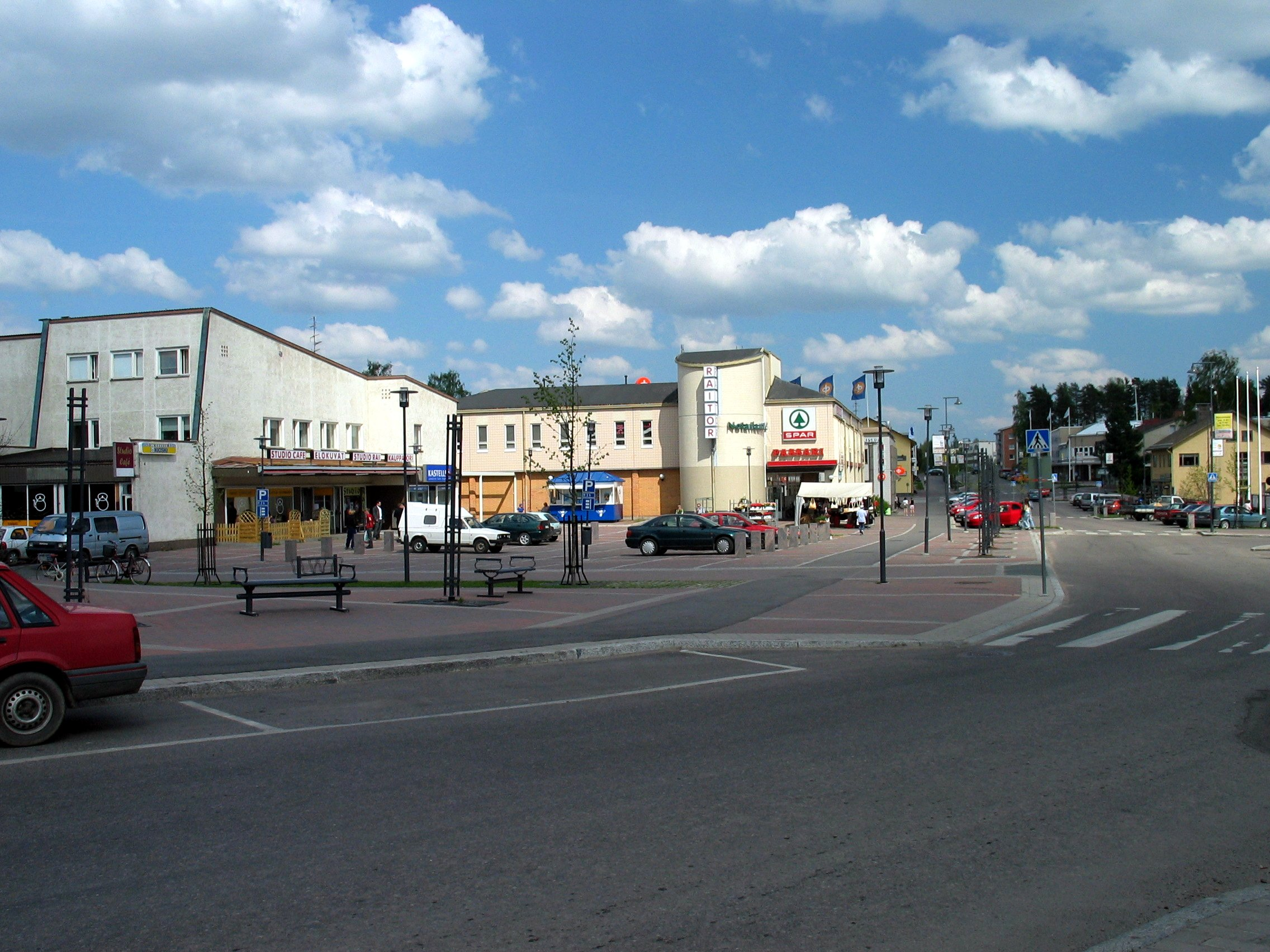 Mäntsälä town center, market square and main street (Mäntsälä, Finland)